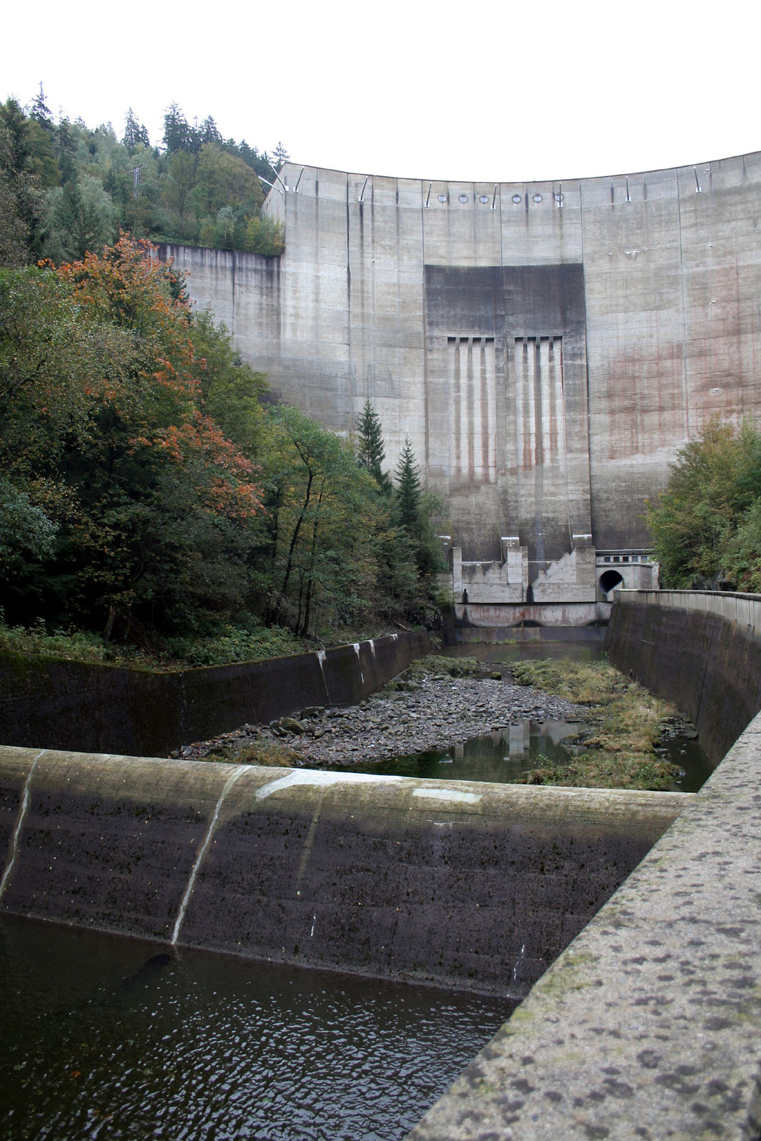 Tosbecken unterhalb der Okertalsperre im Harz / Stilling basin below the retaining wall in the river Oker in the Harz-Mointains